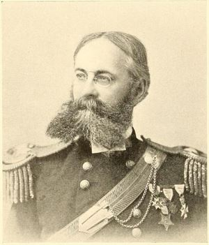 Adolphus Greely